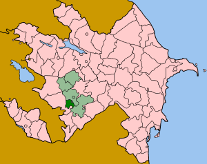 Map of Azerbaijan showing Shusha (Şuşa) rayon. It is completely part of Nagorno-Karabakh, and is called Shushi by the local population.